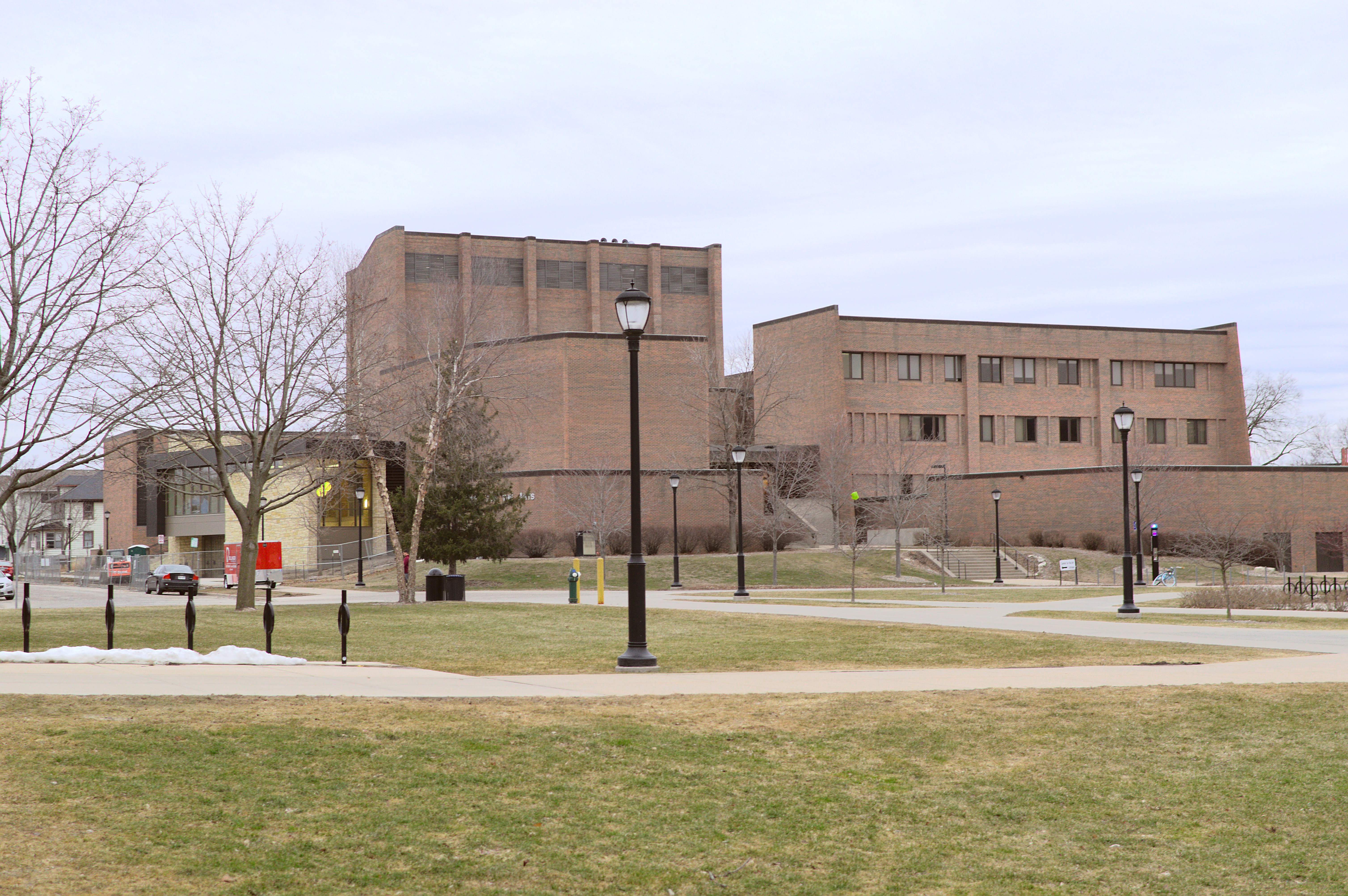 The Center for the Arts Building houses all music and art departments.